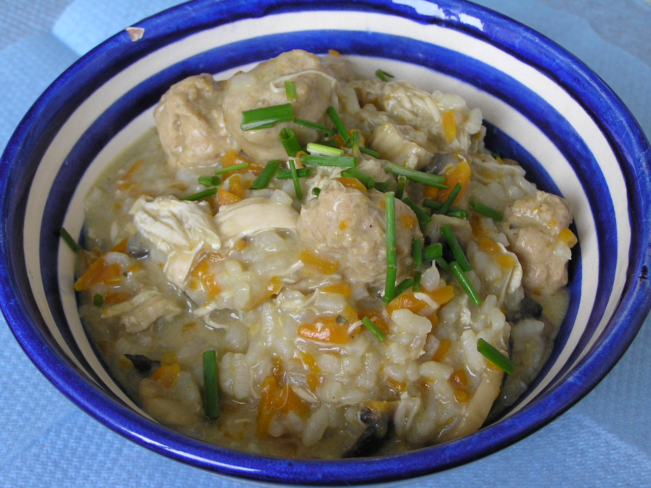 A bowl of risotto.